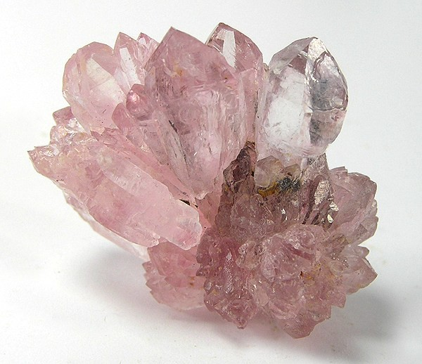 Quartz (Var.: Rose Quartz) Locality: Alto da Pitorra, Laranjeiras, Galiléia, Doce valley, Minas Gerais, Southeast Region, Brazil (Locality at ) Size: 3.4 x 3.1 x 1.9 cm. Look at the superb gemminess of this rose quartz specimen! Rose quartz is the most prized of the quartz varietals, and specimens of this quality are EXCEEDINGLY rare - that is, specimens with very well-defined, elongated crystals that have this exceptional transparency. You could hardly do better for a miniature of rose quartz!